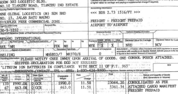 part of MH370 loadsheet, according to source